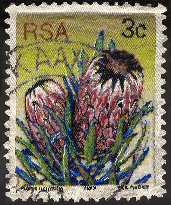 Woven glass seed beads (340 x 280mm)